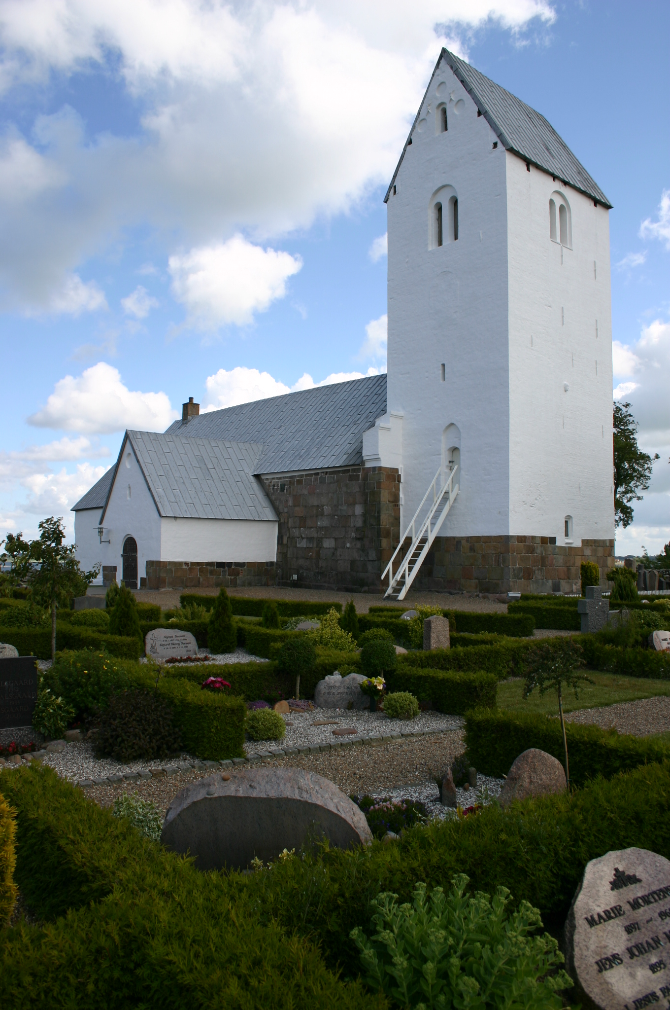 Church of the island Fur, Denmark, seen from NW. Fur Kirke set fra nordvest